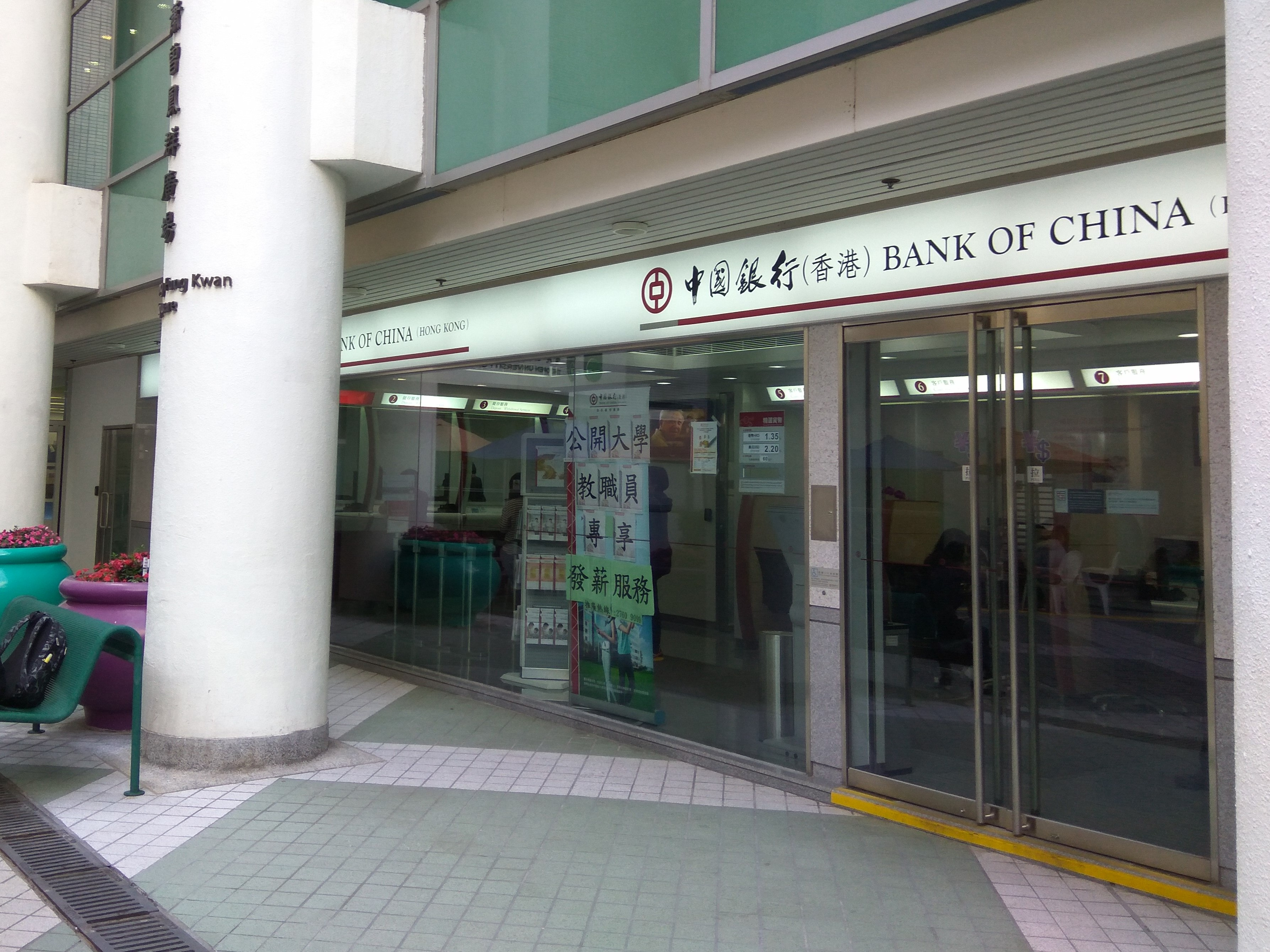 The Bank of China (OUHK) Branch.